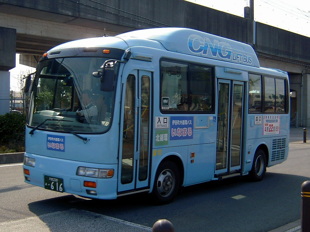 Kyodo kanko bus HINO Liesse (PB-RX6JFAA,CNG) Ina town loop bus "Inamaru"